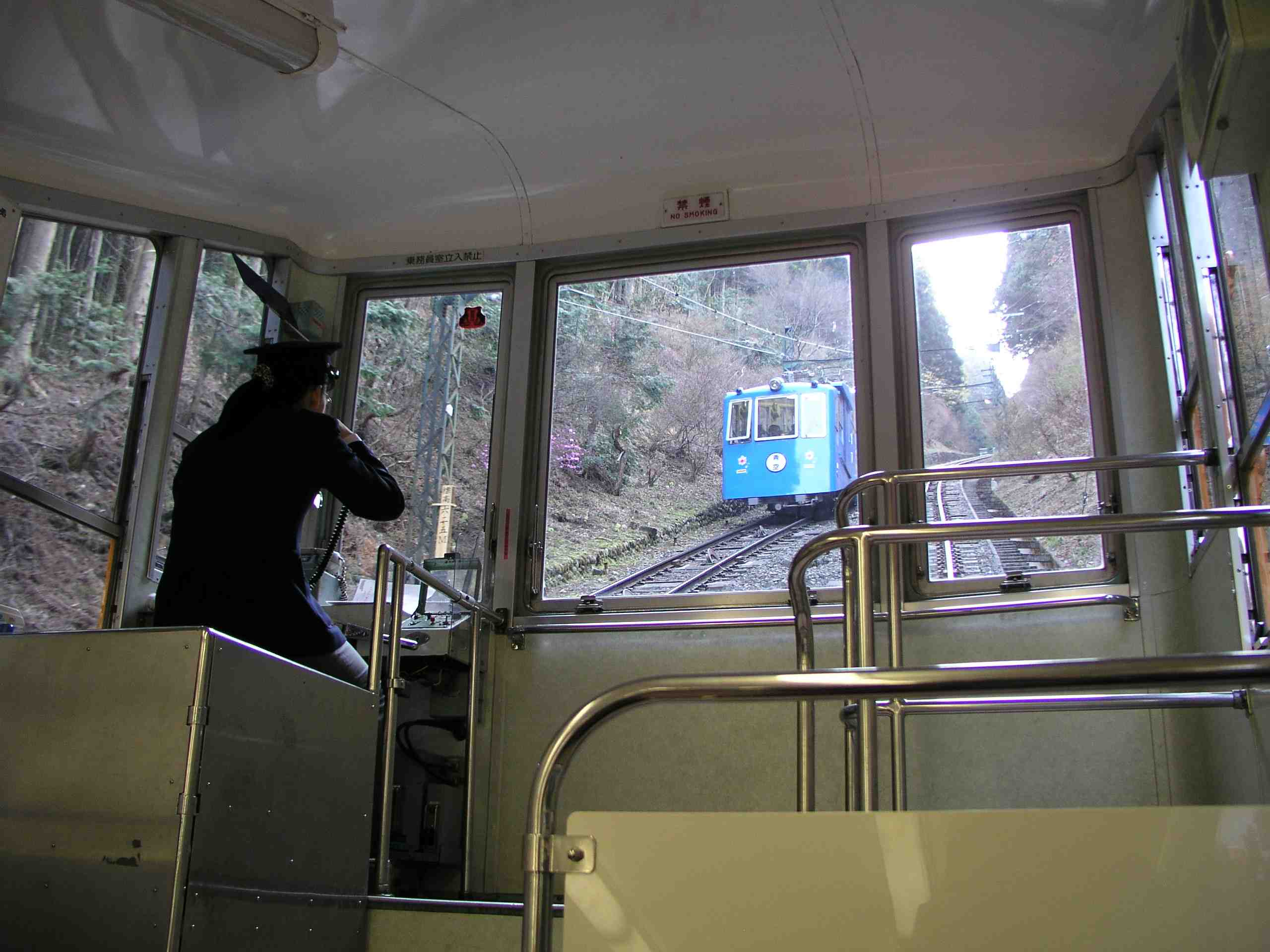 Mitake-San cable railway